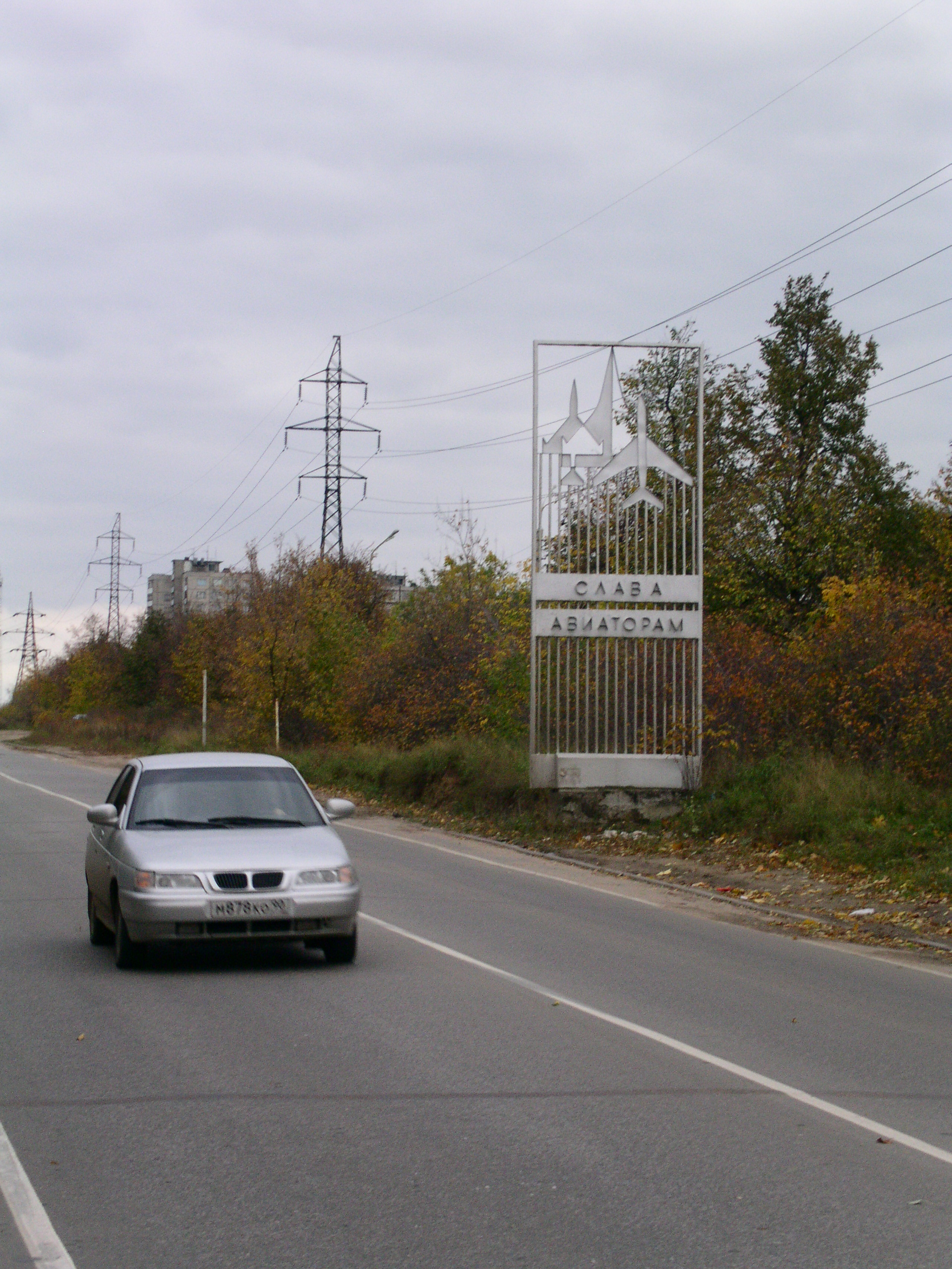 Vladimir Myasishchev Street in Zhukovskiy City, "Hail the Aviators!" (ru "Слава авиаторам") Stella